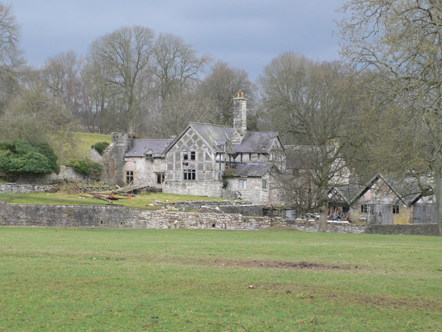 Llwyn Ynn Hall Elizabethan hall, now shamefully derelict.